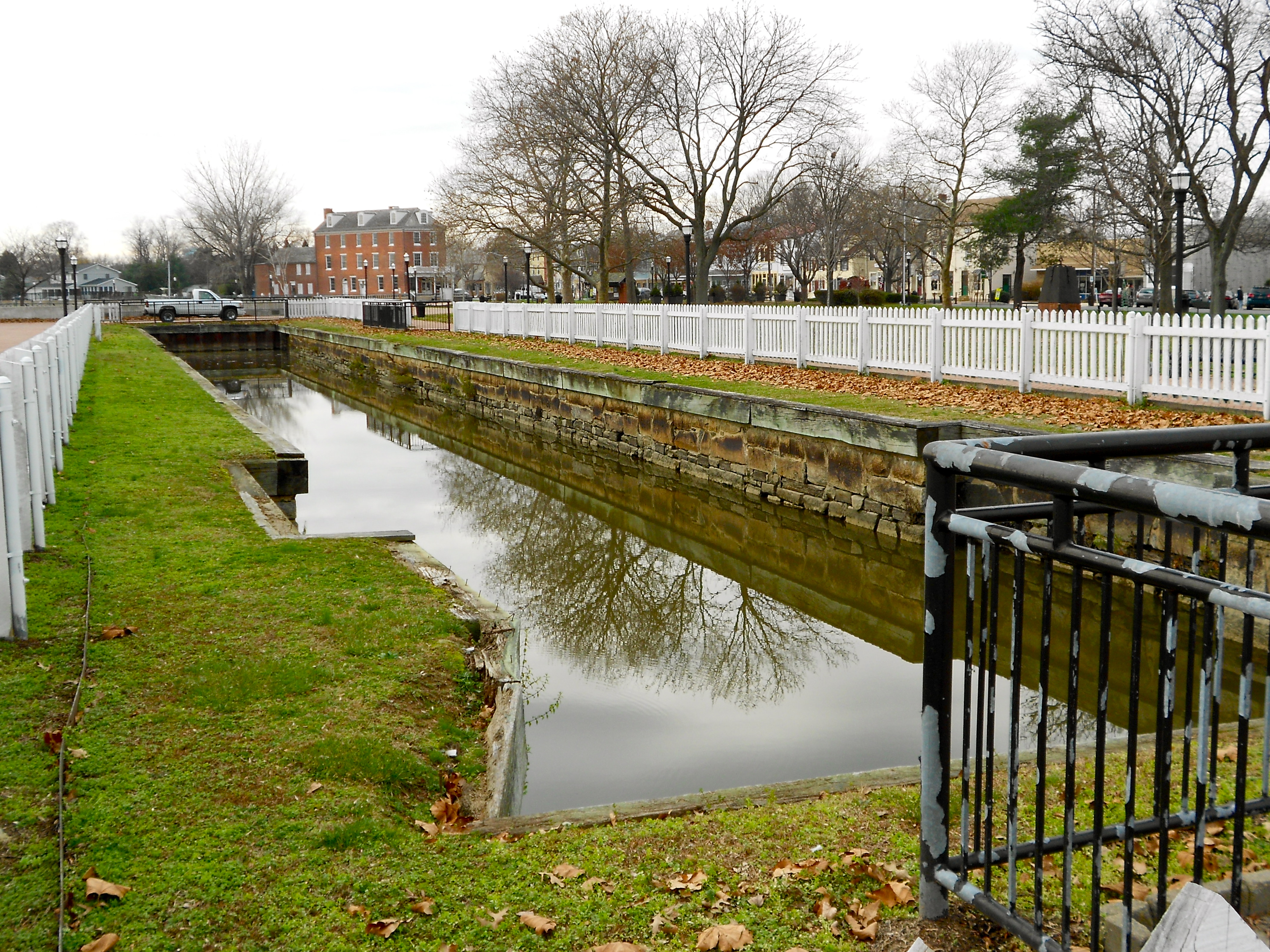 Eastern lock of the Chesapeake and Delaware Canal (now out of use). The Van Amringe house in the background. Listed as the Eastern Lock of the Chesapeake and Delaware Canal on the NRHP since April 21, 1975, in Battery Park, Delaware City, Delaware.